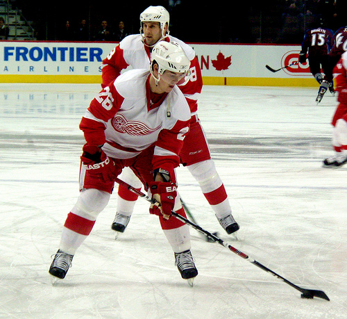 Jiri Hudler, Czech ice hockey player, Detroit Red Wings